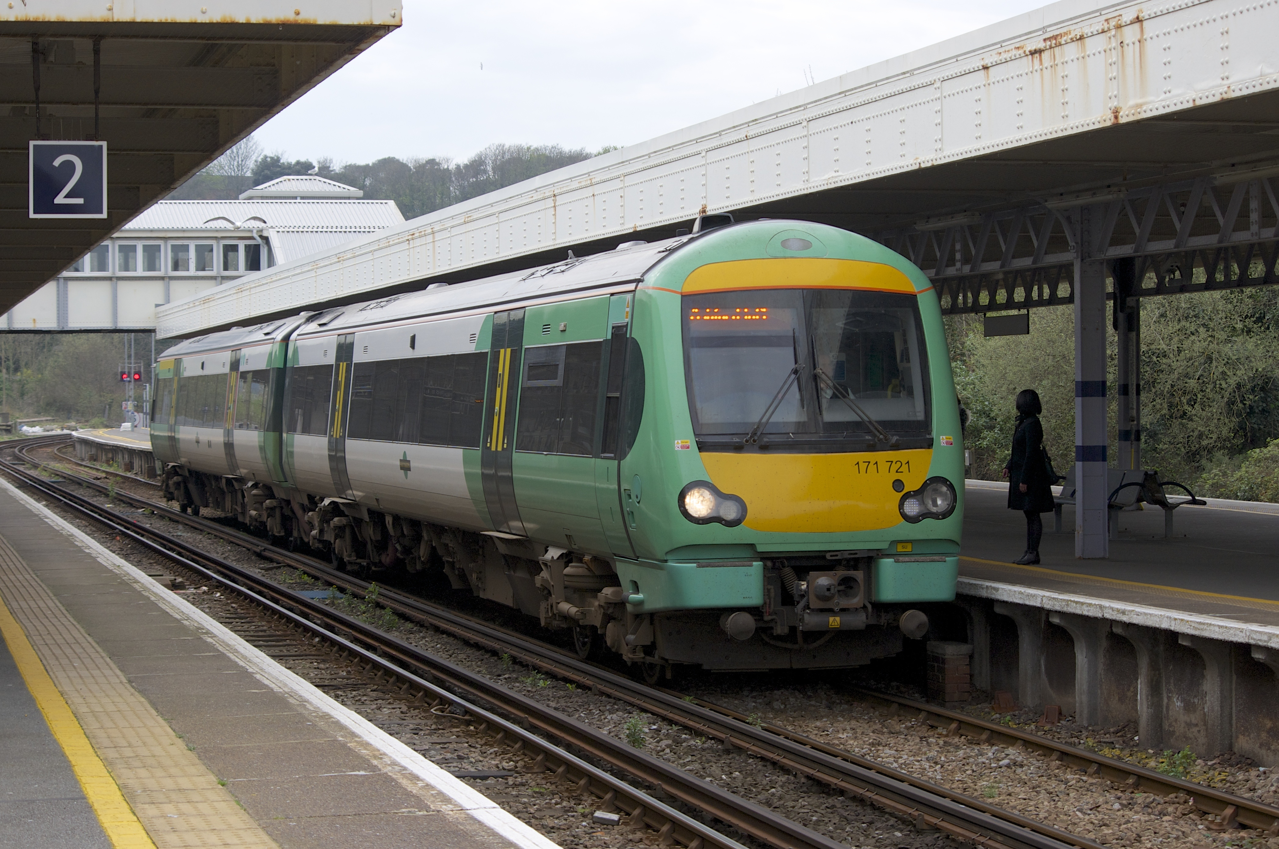 171721 at Hastings 1G37 1332 Brighton to Ashford International 2 April 2014